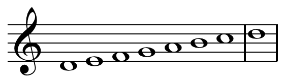 Dorian mode on D. Created by Hyacinth (talk) 09:54, 19 April 2011 (UTC) using Sibelius 5. See: File:D Dorian mode.mid